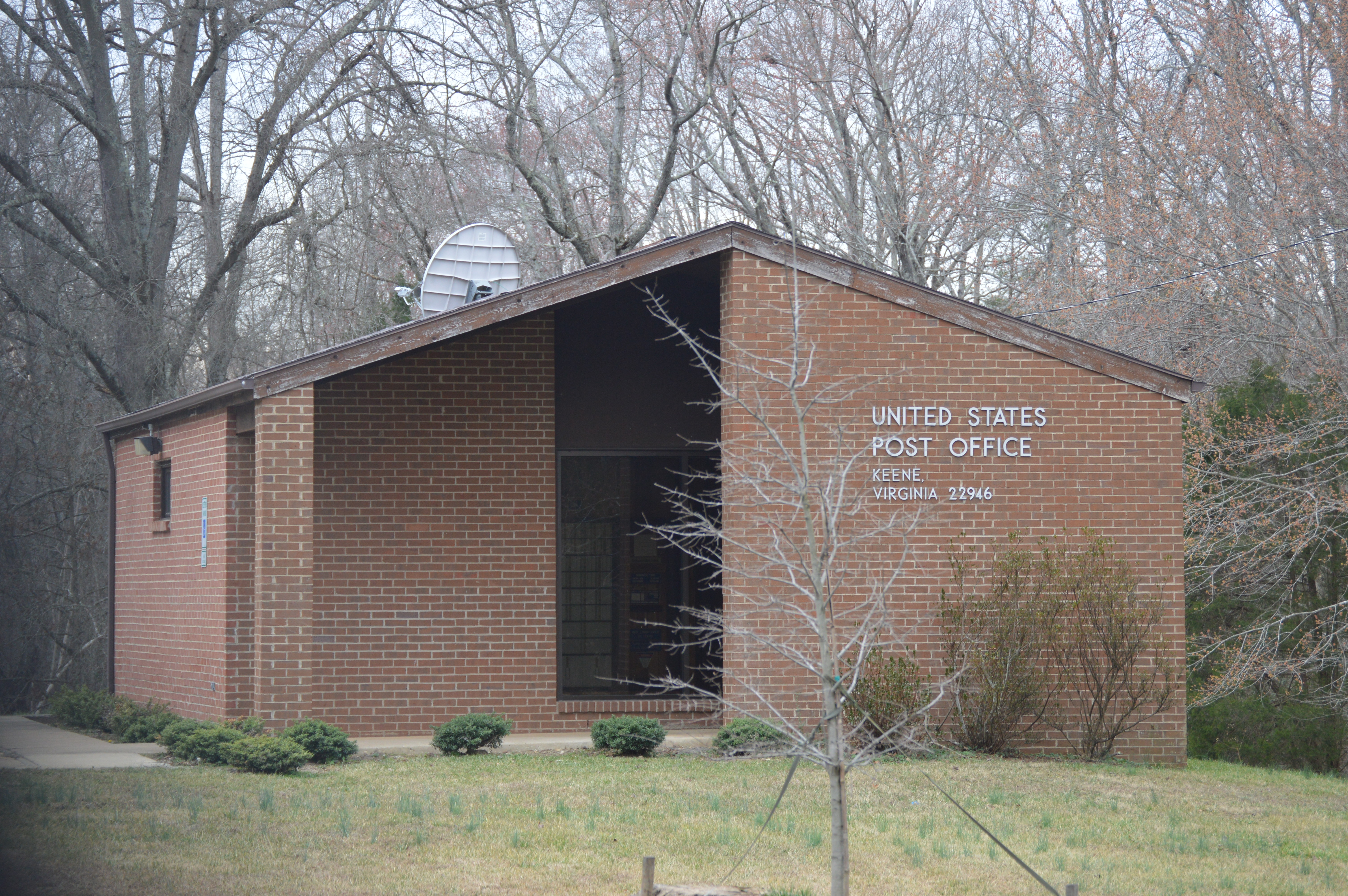 Front of the Keene post office, located on Plank Road at Keene in Albemarle County, Virginia, United States.